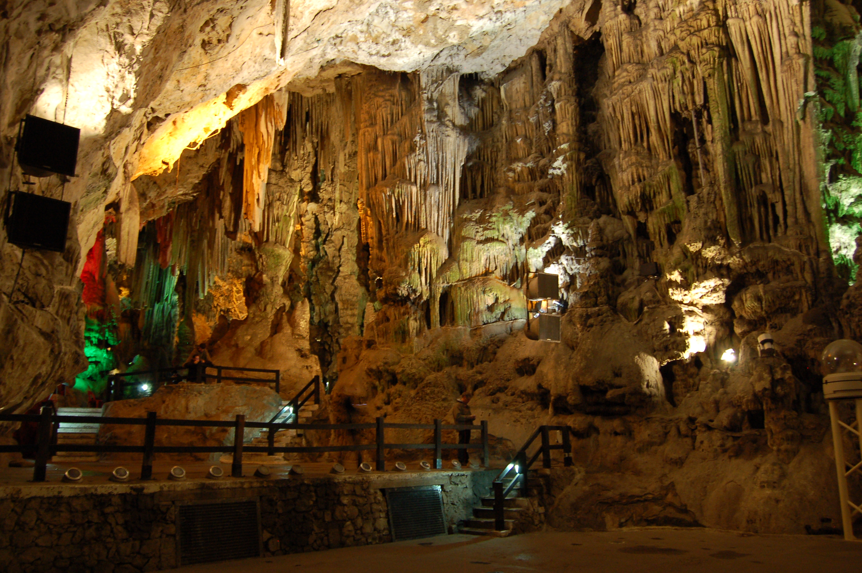 View of the stage and surrounding area inside St. Michael's Cave, Gibraltar.